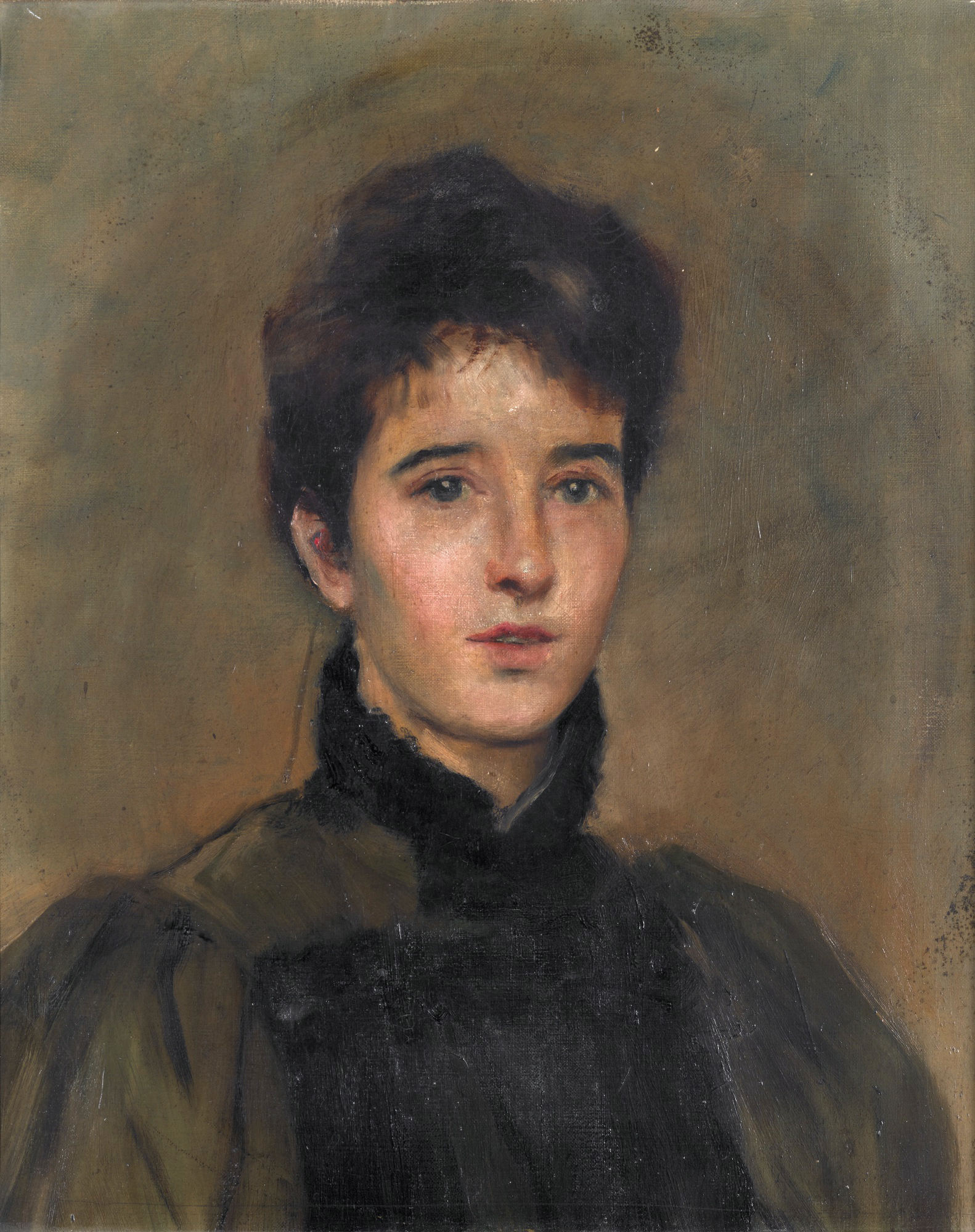 Elizabeth Corbet 'Lolly' Yeats oil on canvas 51 x 43cm 1887